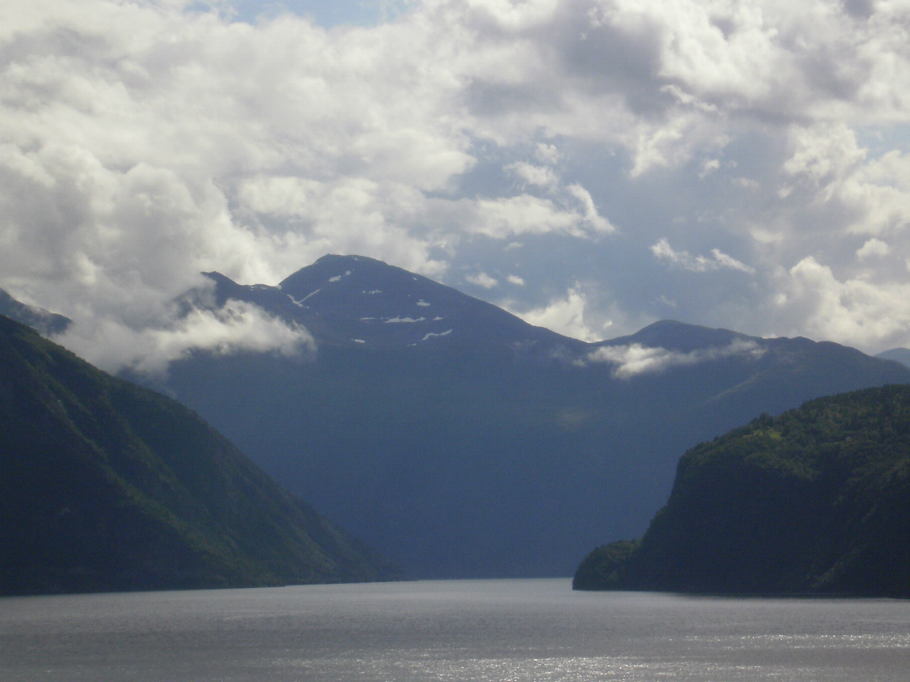 Mountains in Norway